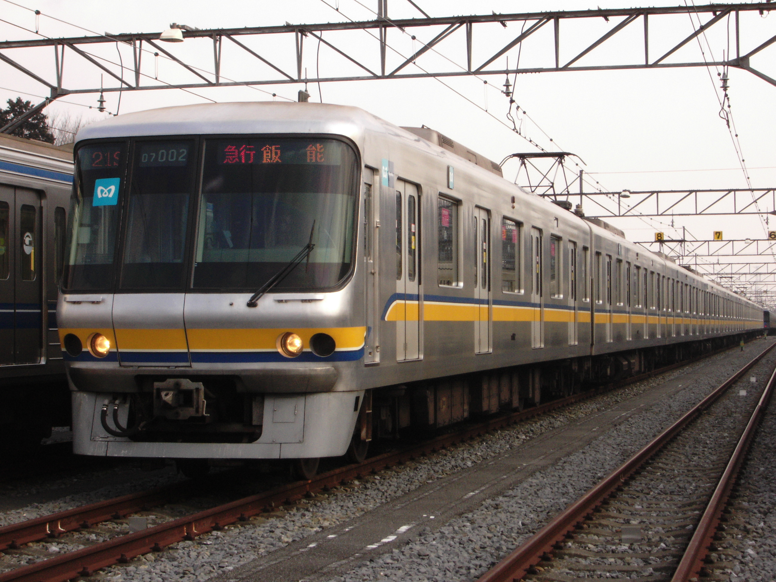 A Tokyo Metro Yurakucho Line 07 series EMU